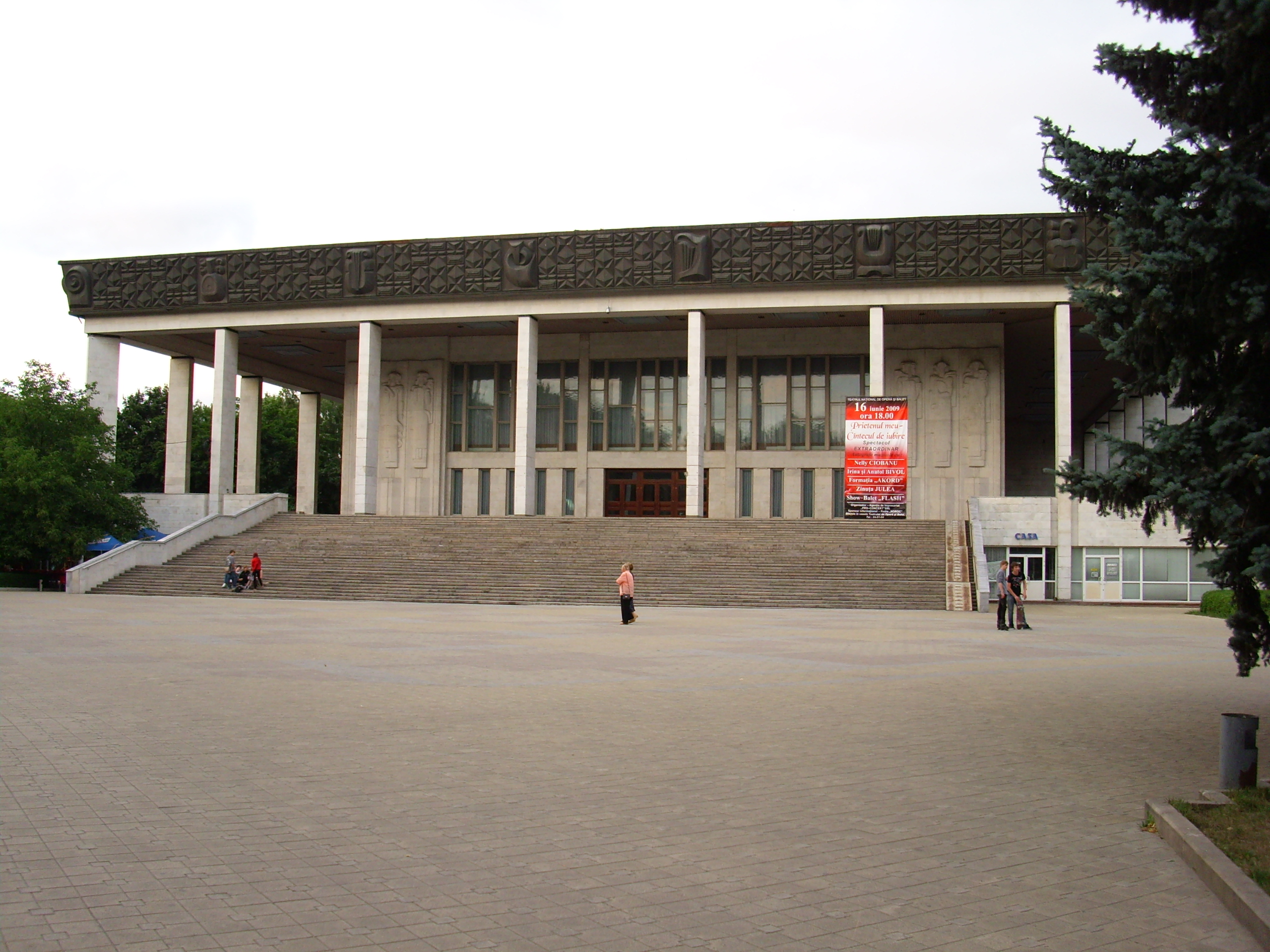 Chișinău, Moldova: The National Opera and Ballet Theatre / Teatrul Național de Operă și Balet - Bulevardul Ștefan Cel Mare - architets A. Gorskov and L. Kurennoi